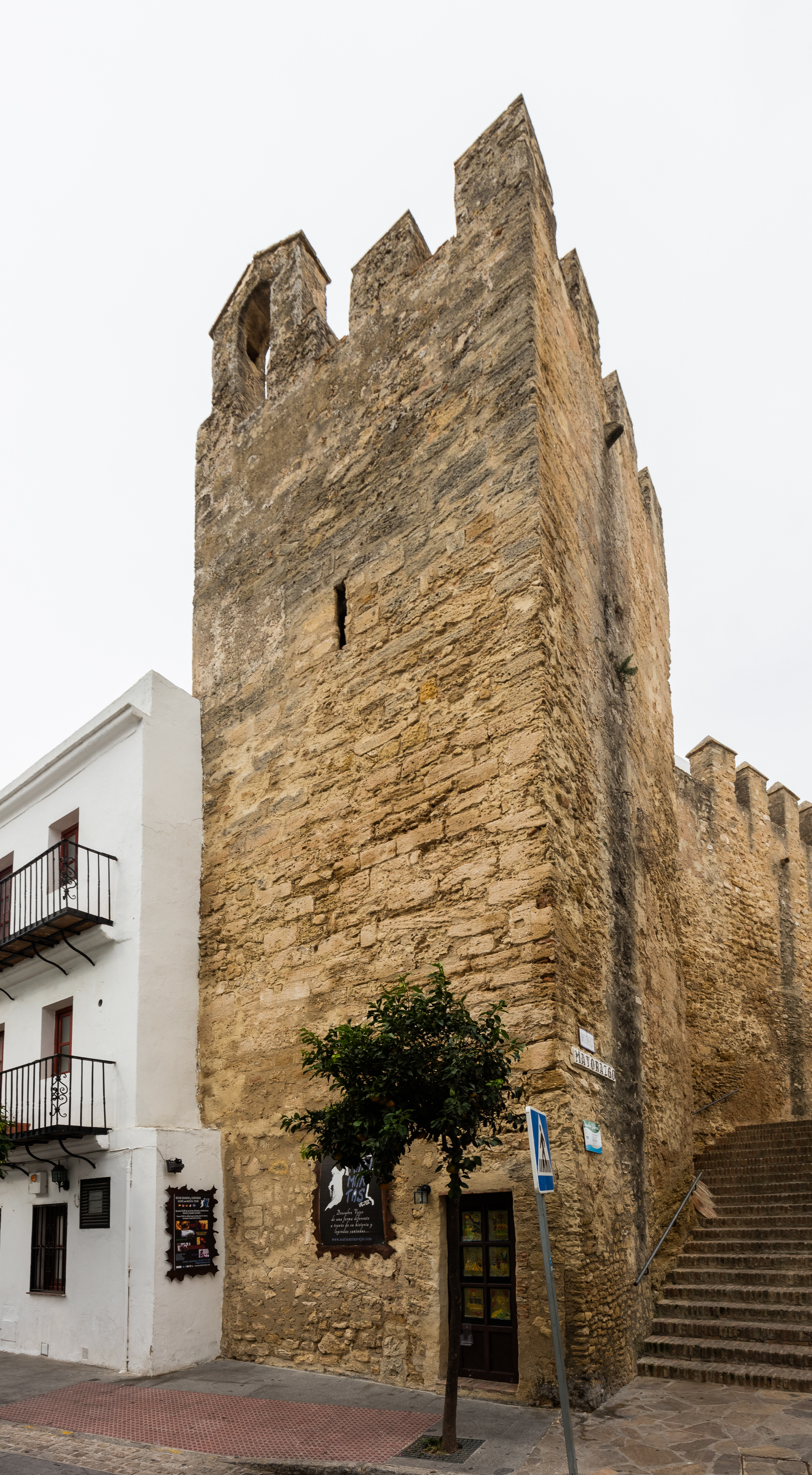 Torre del Mayorazgo, Vejer de la Frontera, Cádiz, Spain